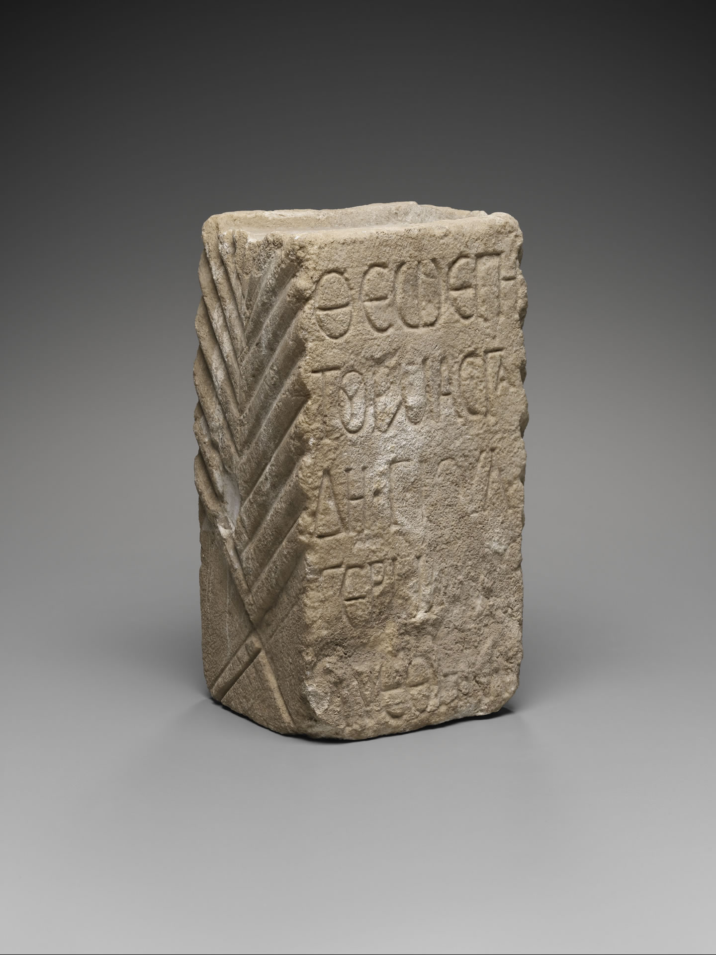 AAltar to Turmasgade, Inscription 973